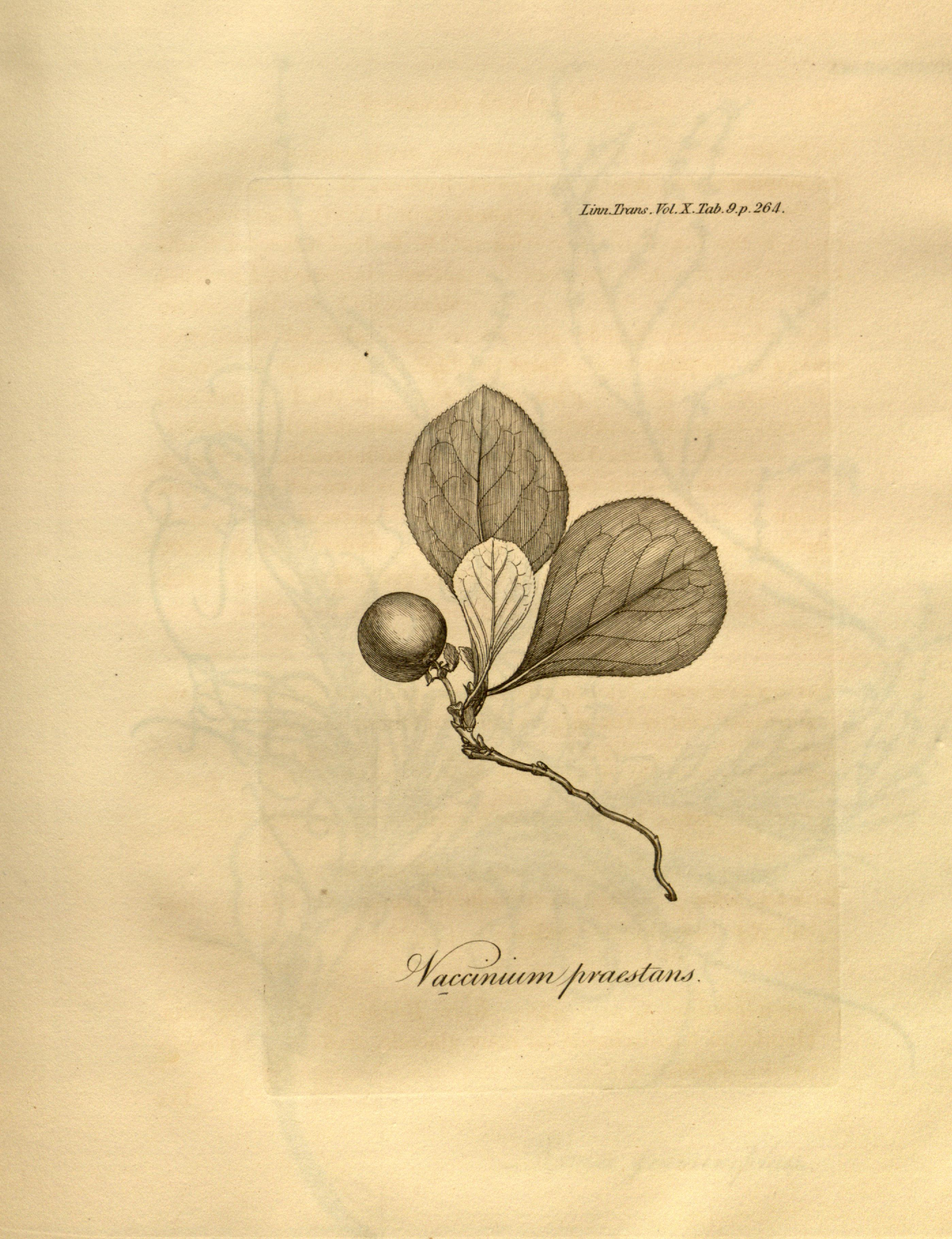 This is a page from Volume X of Transactions of the Linnean Society of London, published in 1811. The original work is in the public domain by virtue of its author having died a great many years ago. The scan is recent, but since this is a slavish copy of a two dimensional work, and since the scan was performed in the United States, it too is in the public domain.